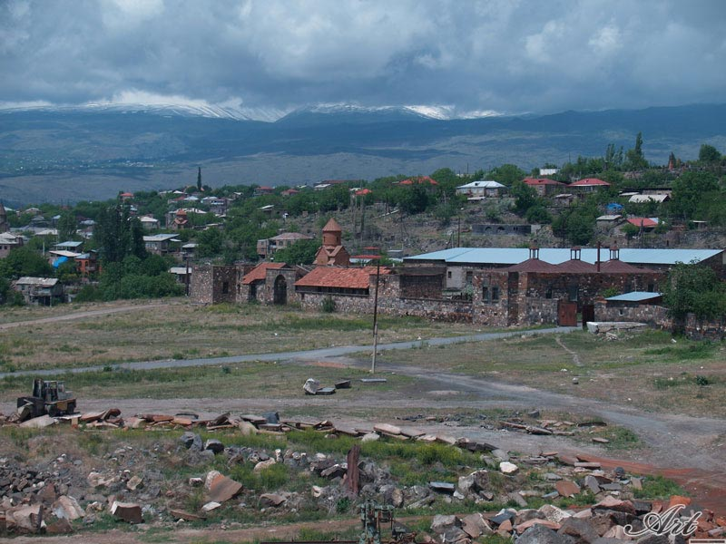 Ashtarak town and Surp Sarkis Church, Armenia.